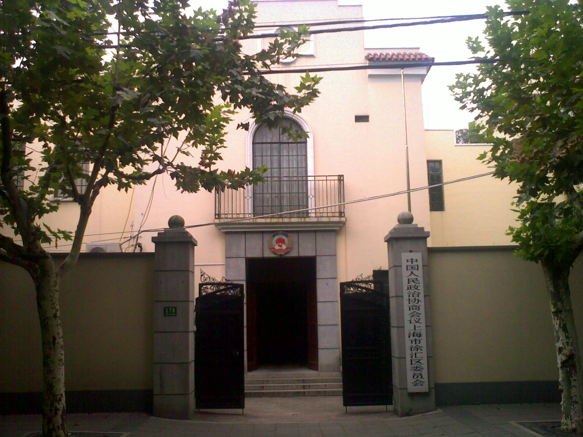 Ürümqi Road No. 178